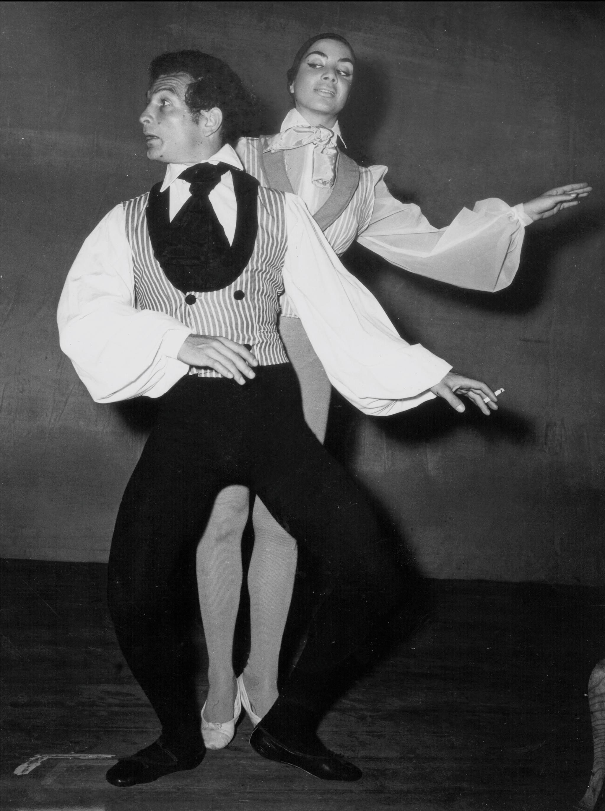 Actor and mime artist Shaike Ophir performing with actress Ziva Rodan.